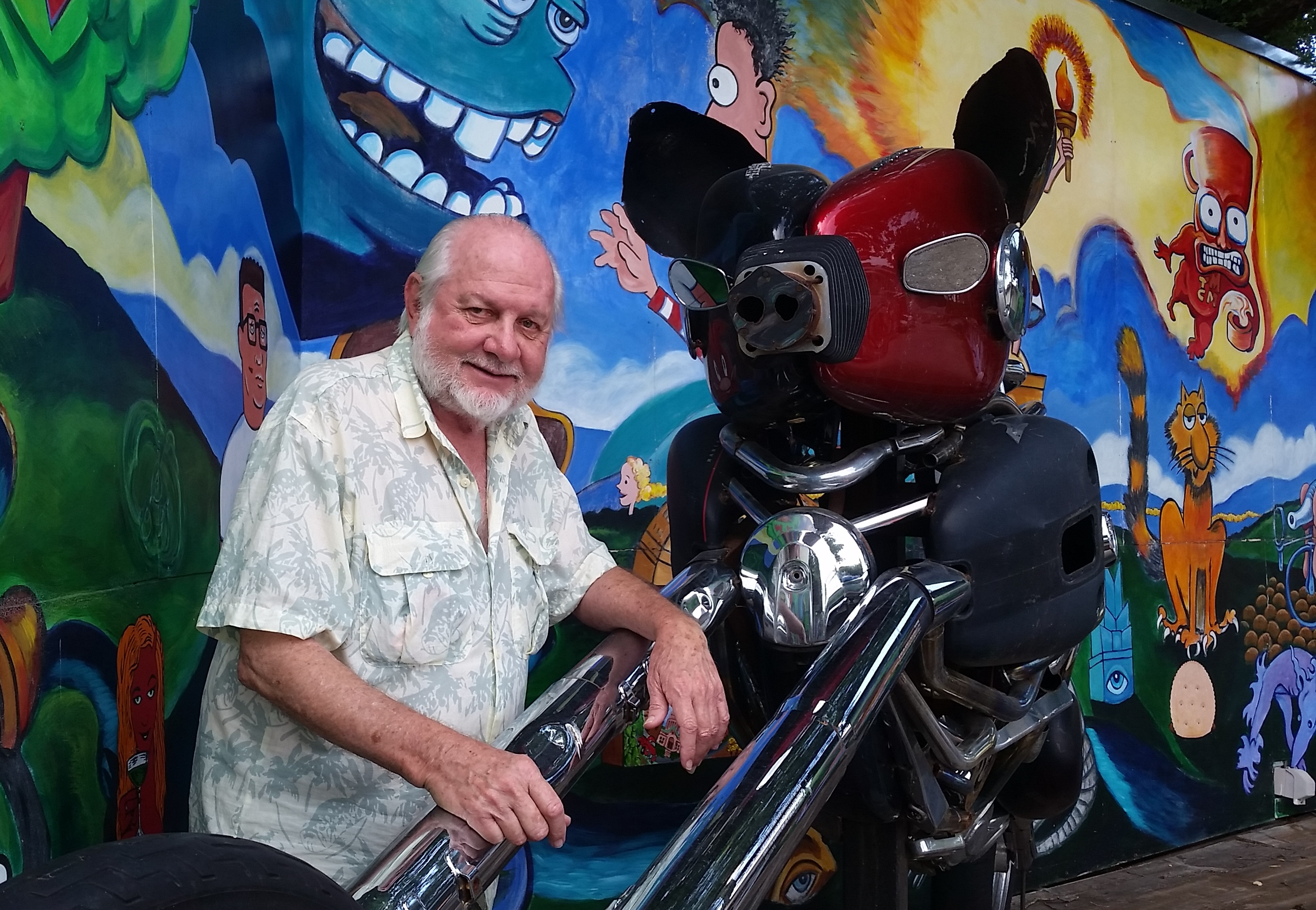 Bob Wade in front of his HOG sculpture at the Southpop art museum in Austin Texas, May 22nd, 2016.